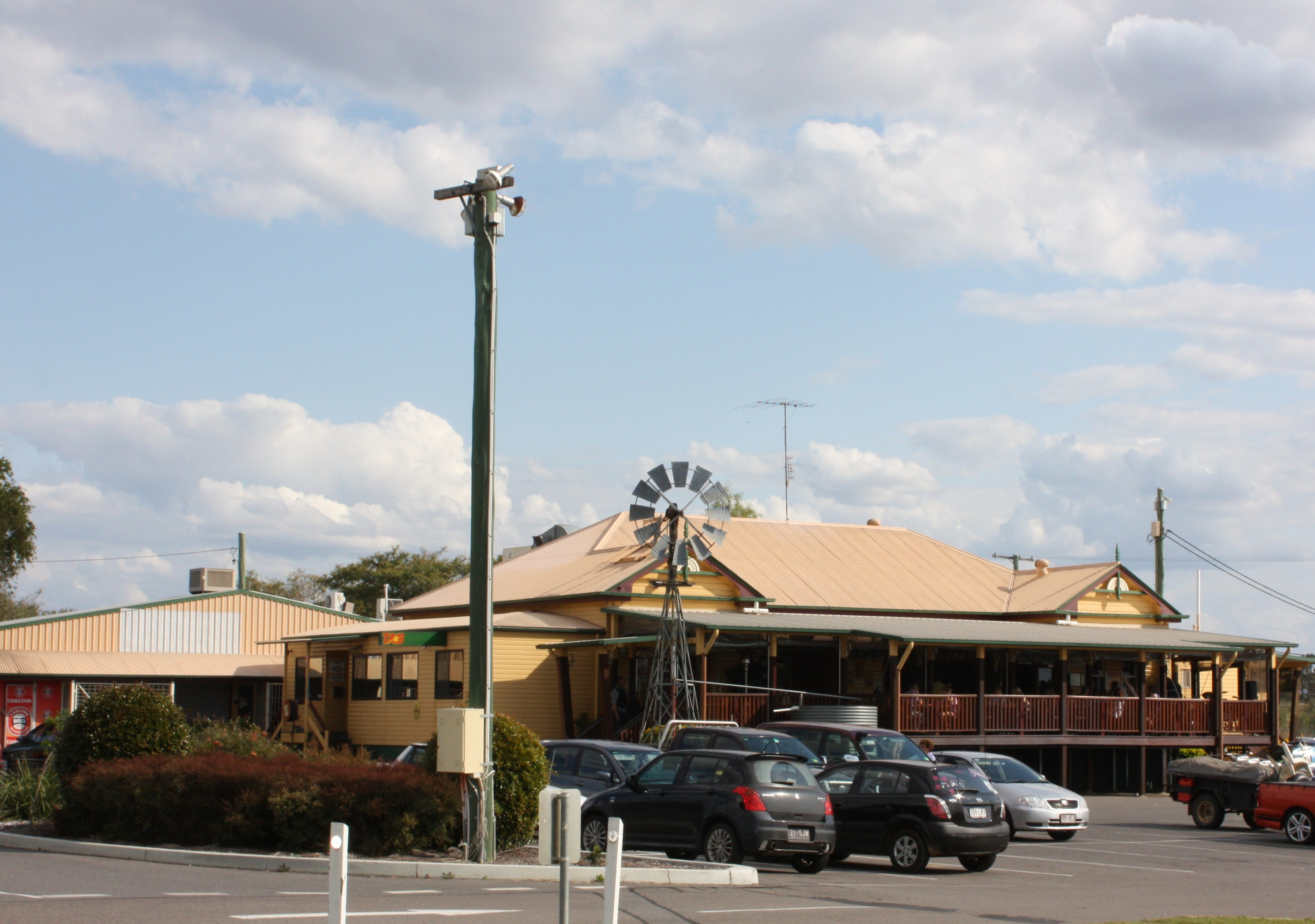 Porter's Plainland Hotel was established in 1908, and has been been redeveloped and expanded under three generations of Porter family management since 1946.